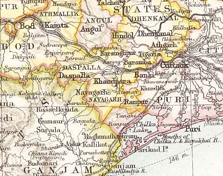 Daspalla-Nayagarh map section. Imperial Gazetteer of India